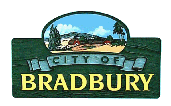 contribs) (917 bytes) (Added specific Fair use rationale for use of image on Bradbury, California article) 2007-12-05T20:32:26Z BetacommandBot (Talk